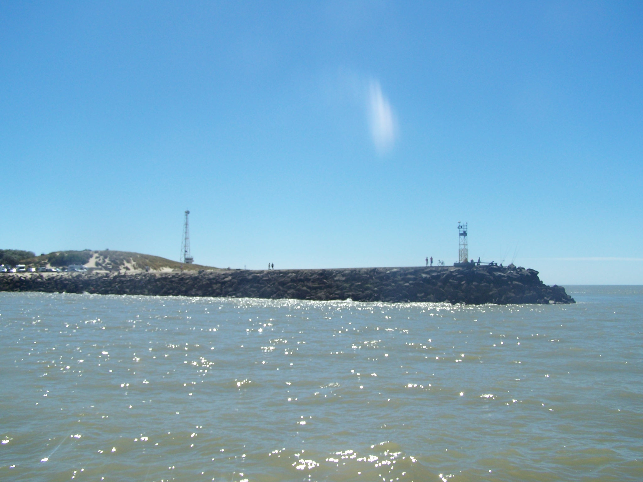 Sight on the Pointe de Grave peninsula, at the Gironde estuary in France (picture taken from the Gironde).